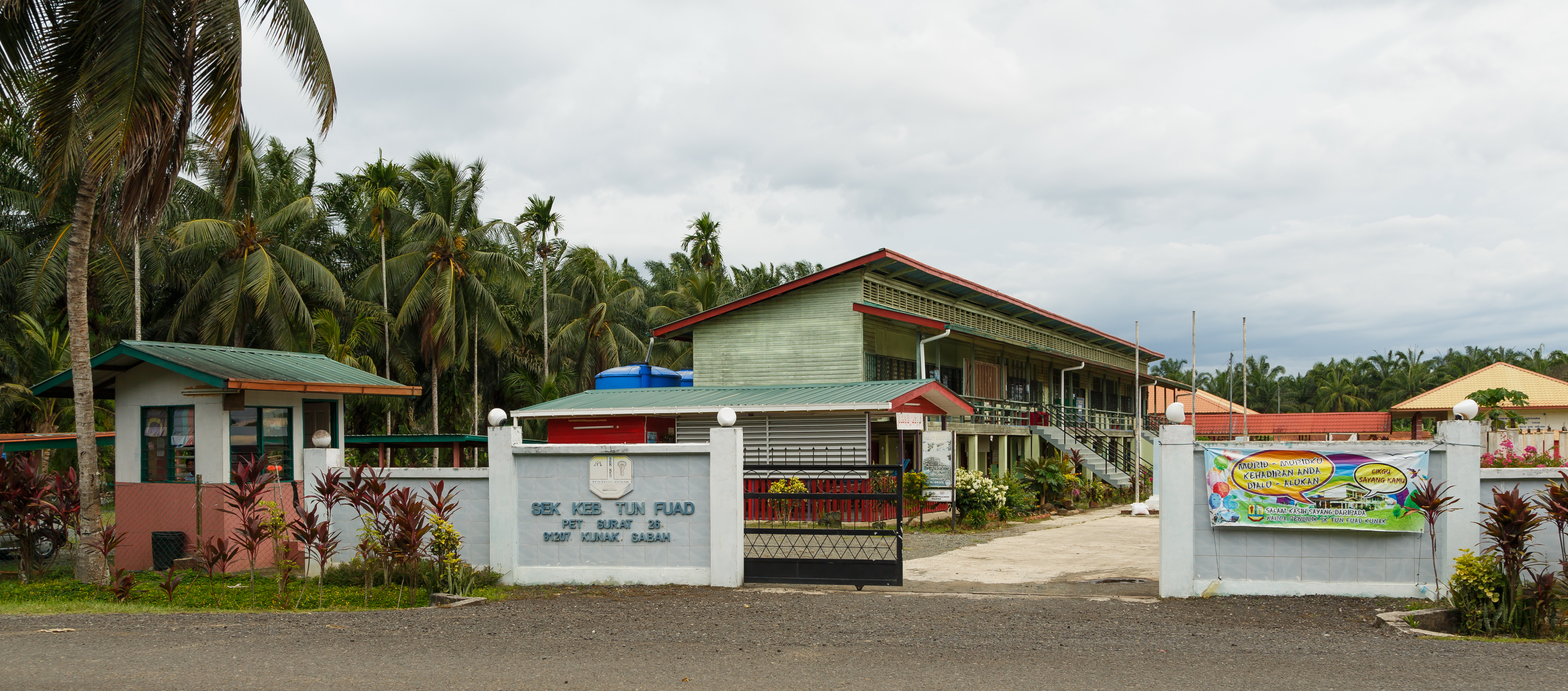 Kg Airport Batu, Sabah: Sekolah Kebangsaan Tun Fuad (SK Tun Fuad), a primary school in Kunak District